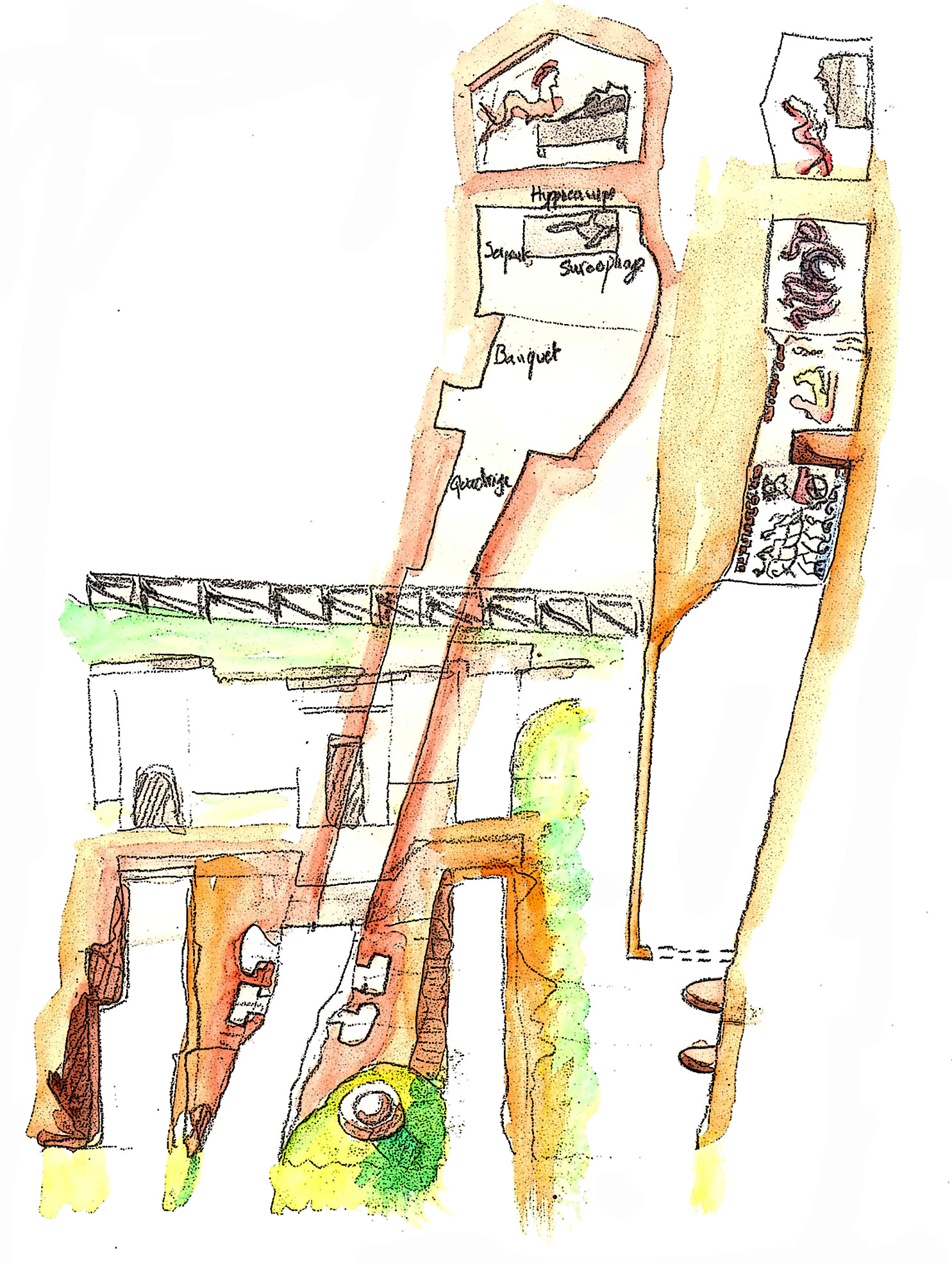 Artist's impressions of maps of Tomba della quadriga infernale